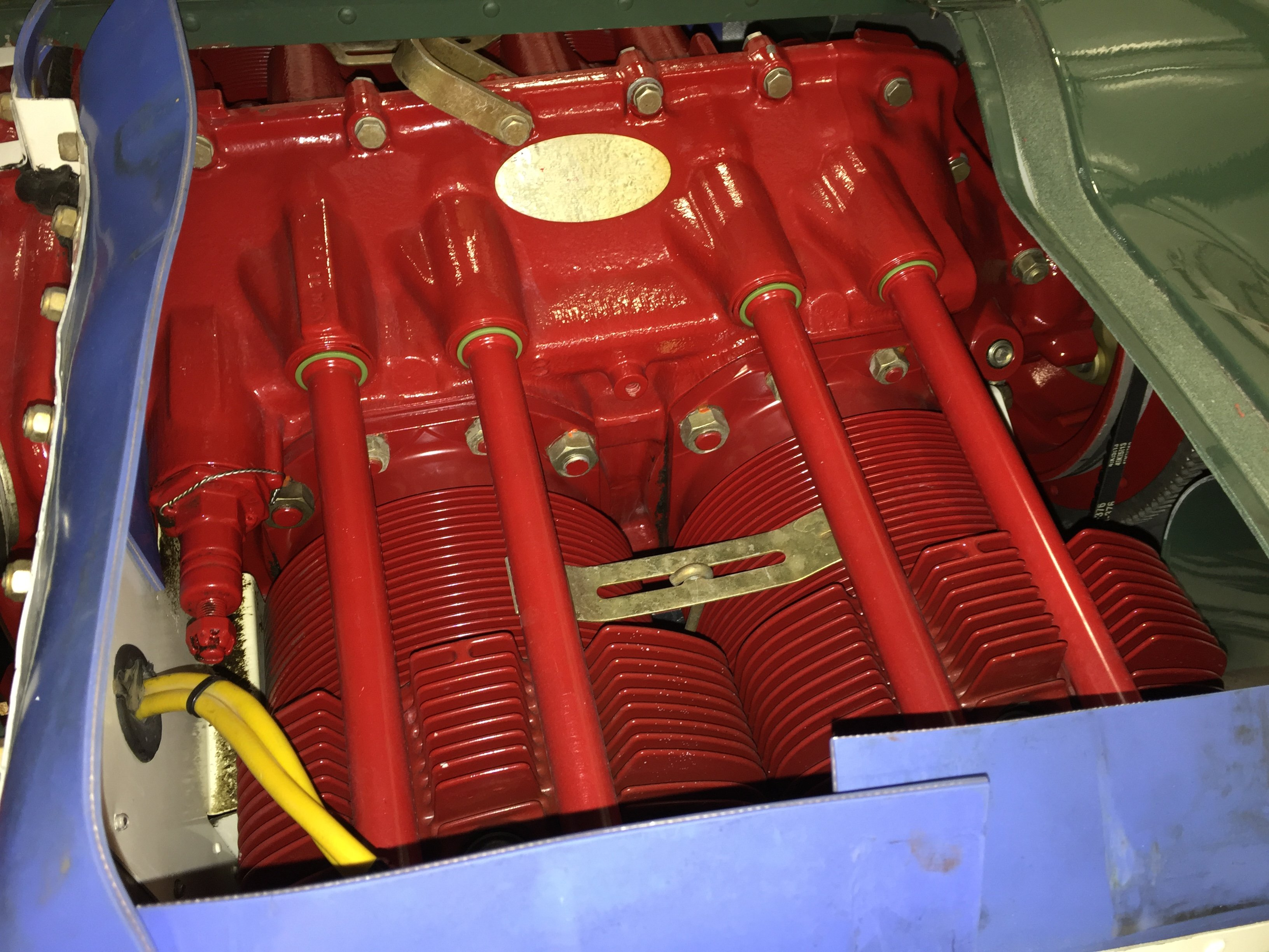 O-360 engine installed in a Grumman Tiger